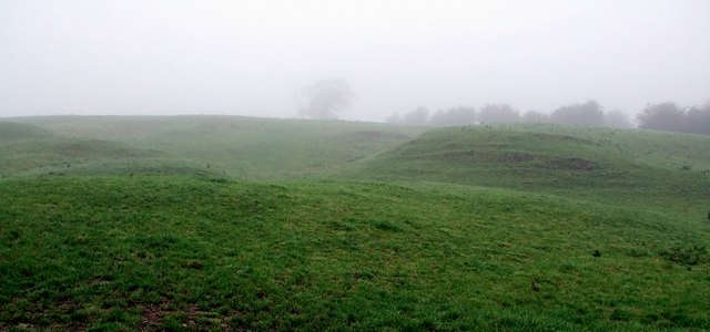 Opposite Manor Farm, Pitchcott, Buckinghamshire. These earthworks are opposite Manor Farm southwest of Pitchcott, but they aren't marked on the map. There are earthworks shown on the OS map but they are on the opposite side of the road behind Pitchcott Manor. The lumpy ground shown here seems man-made. It may have been the mound for a medieval windmill [1].